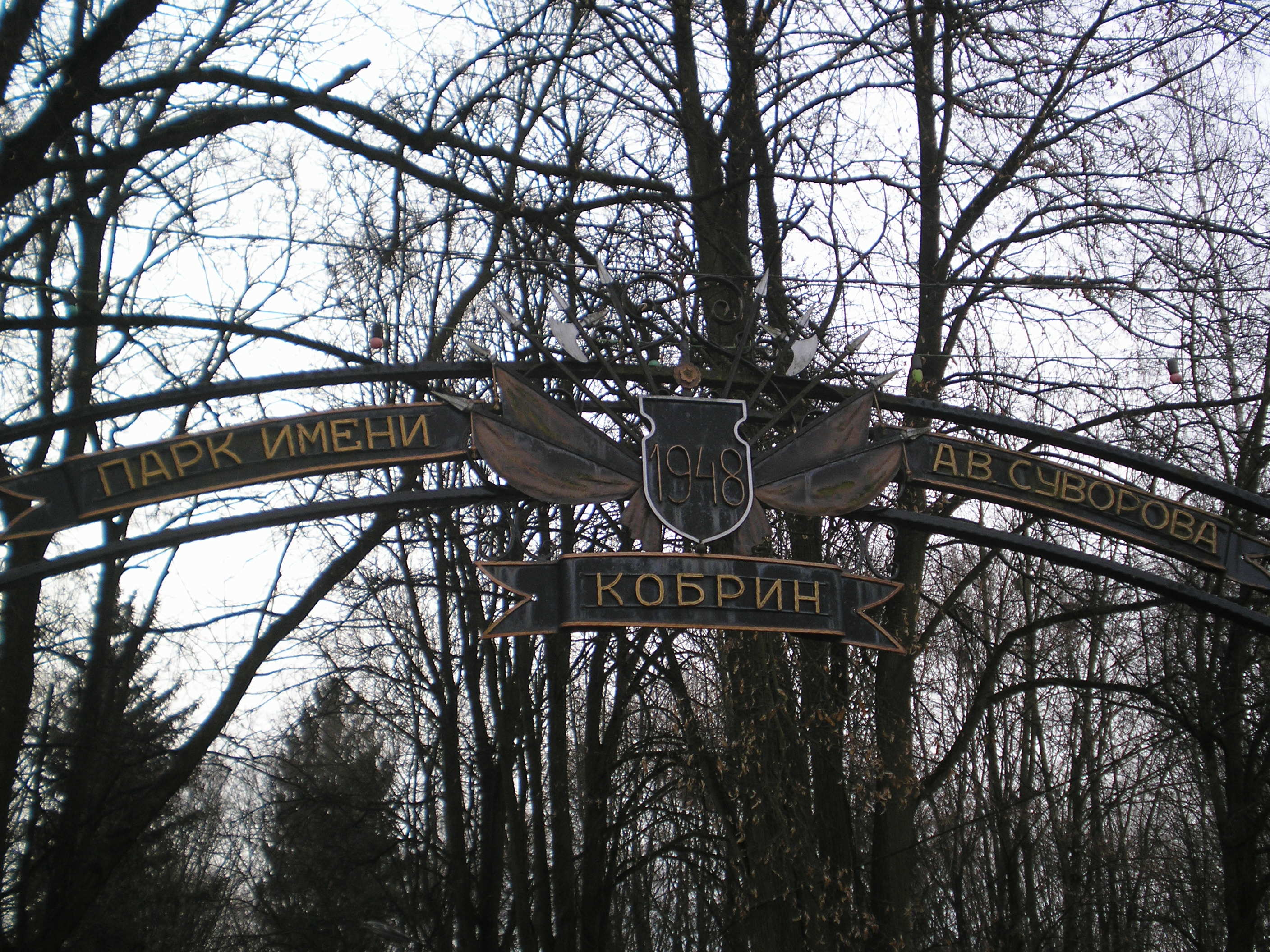 Suvorov Park in Kobrin